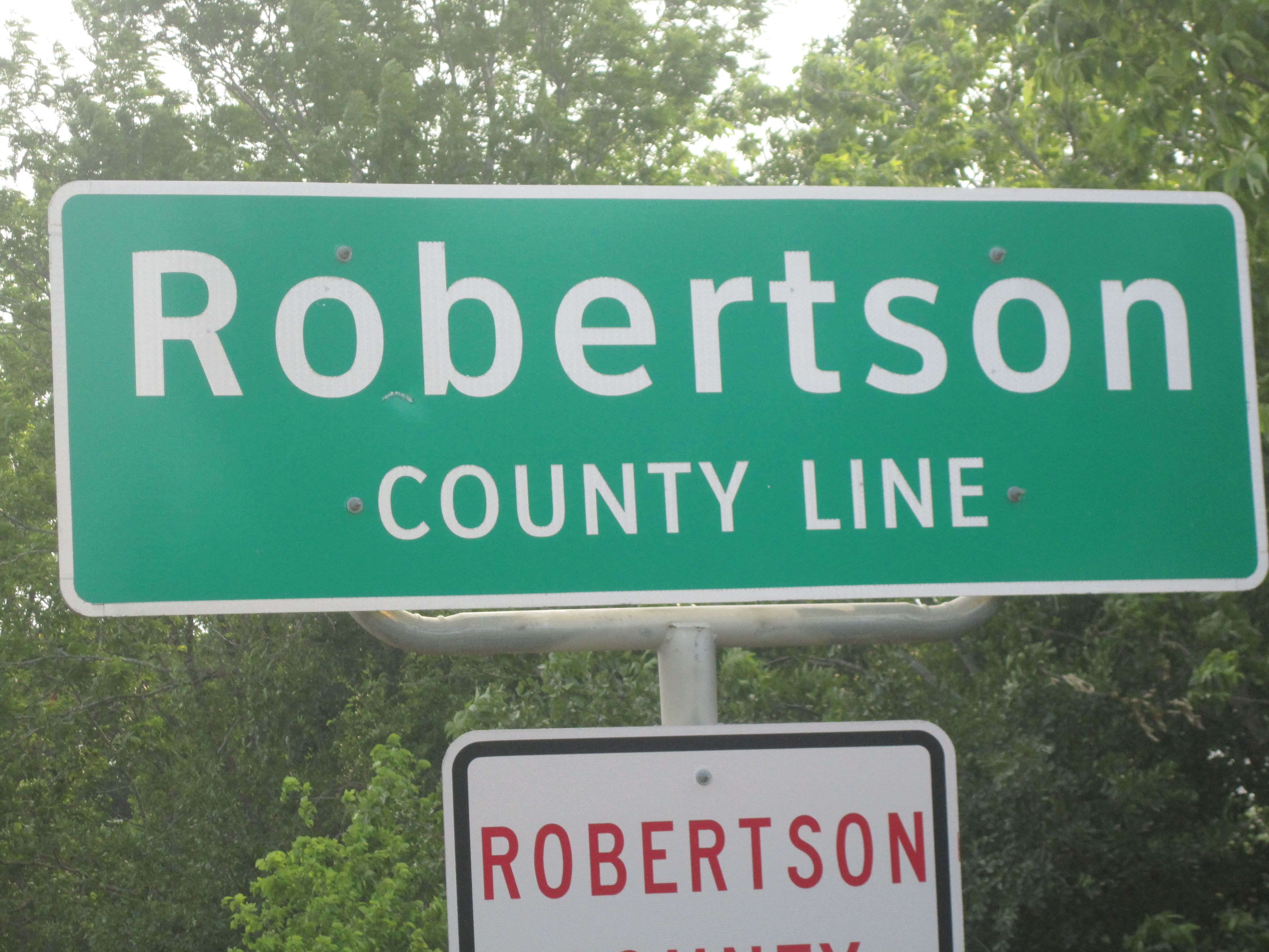 I took photo of Robertson County sign with a Canon camera.